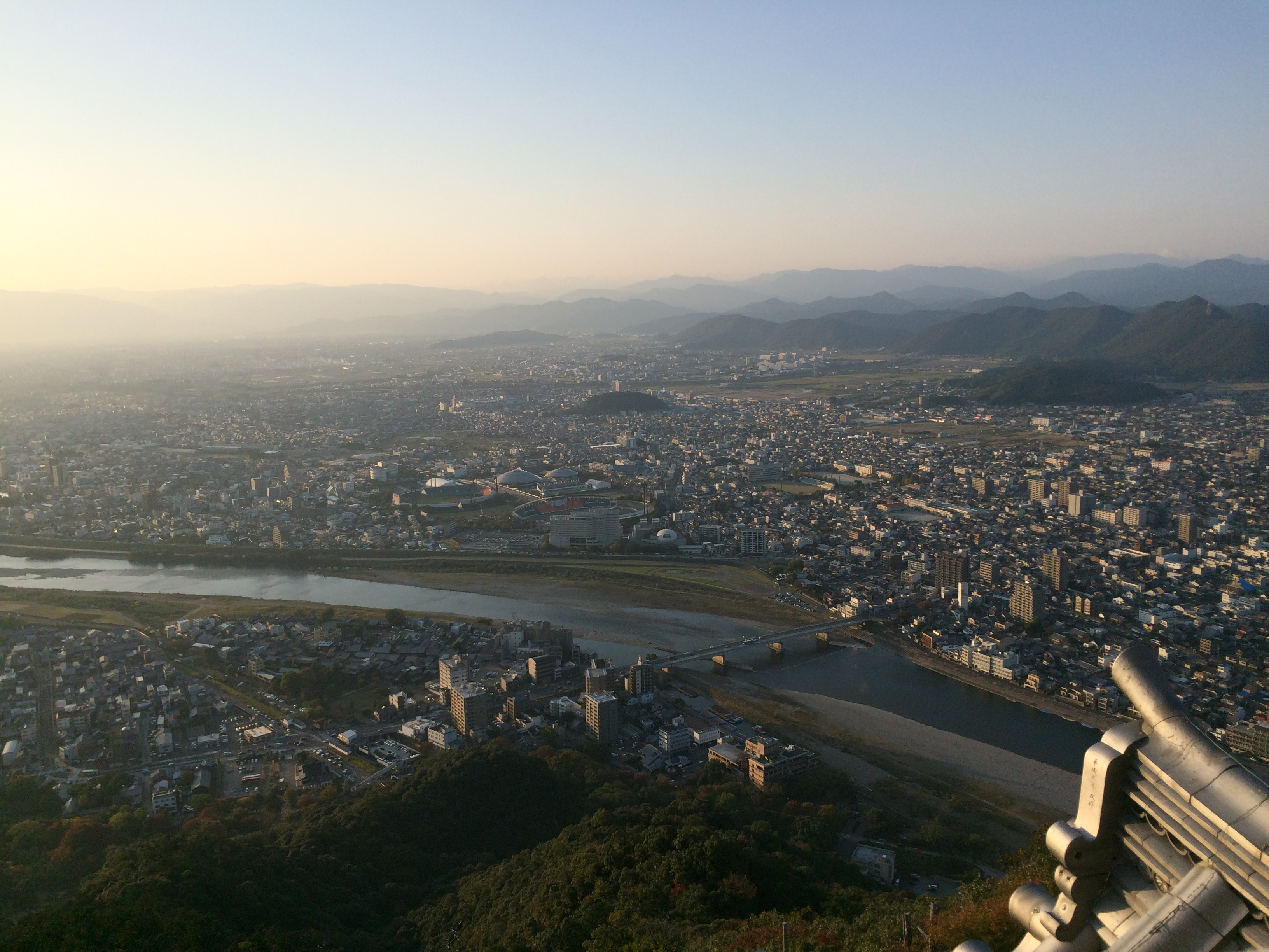 Nagara River, Gifu